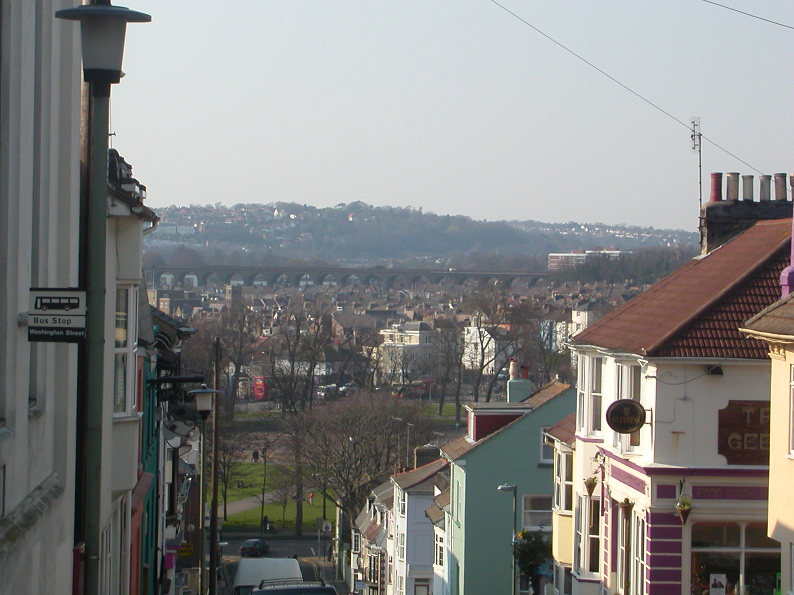 London Road Viaduct, Brighton, City of Brighton and Hove, England: viewed from Washington Street, Hanover.